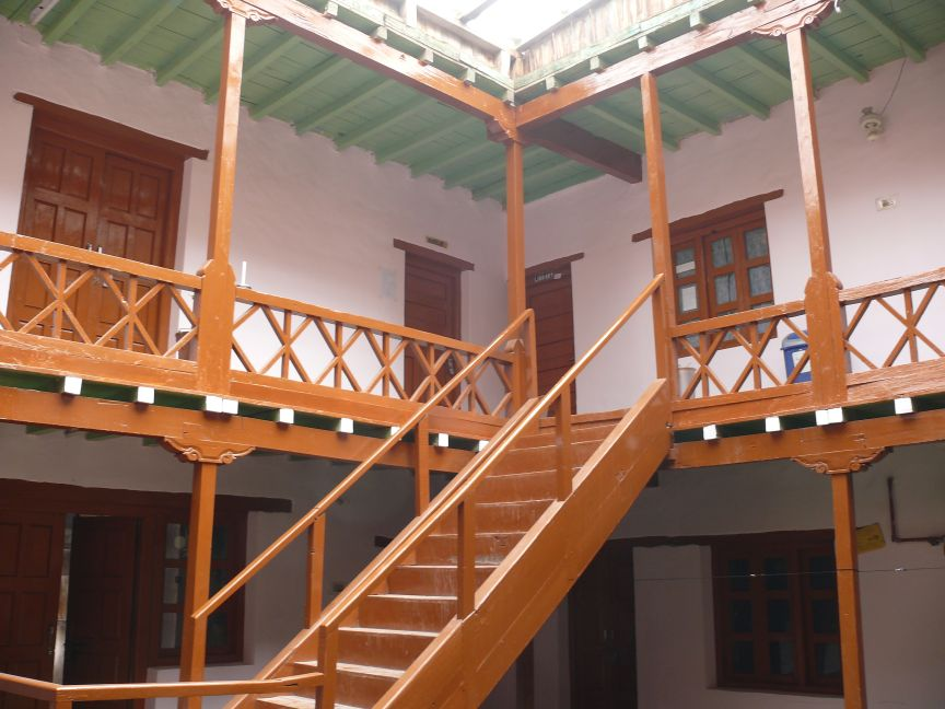 Another View of Tabo Monastery Guest House